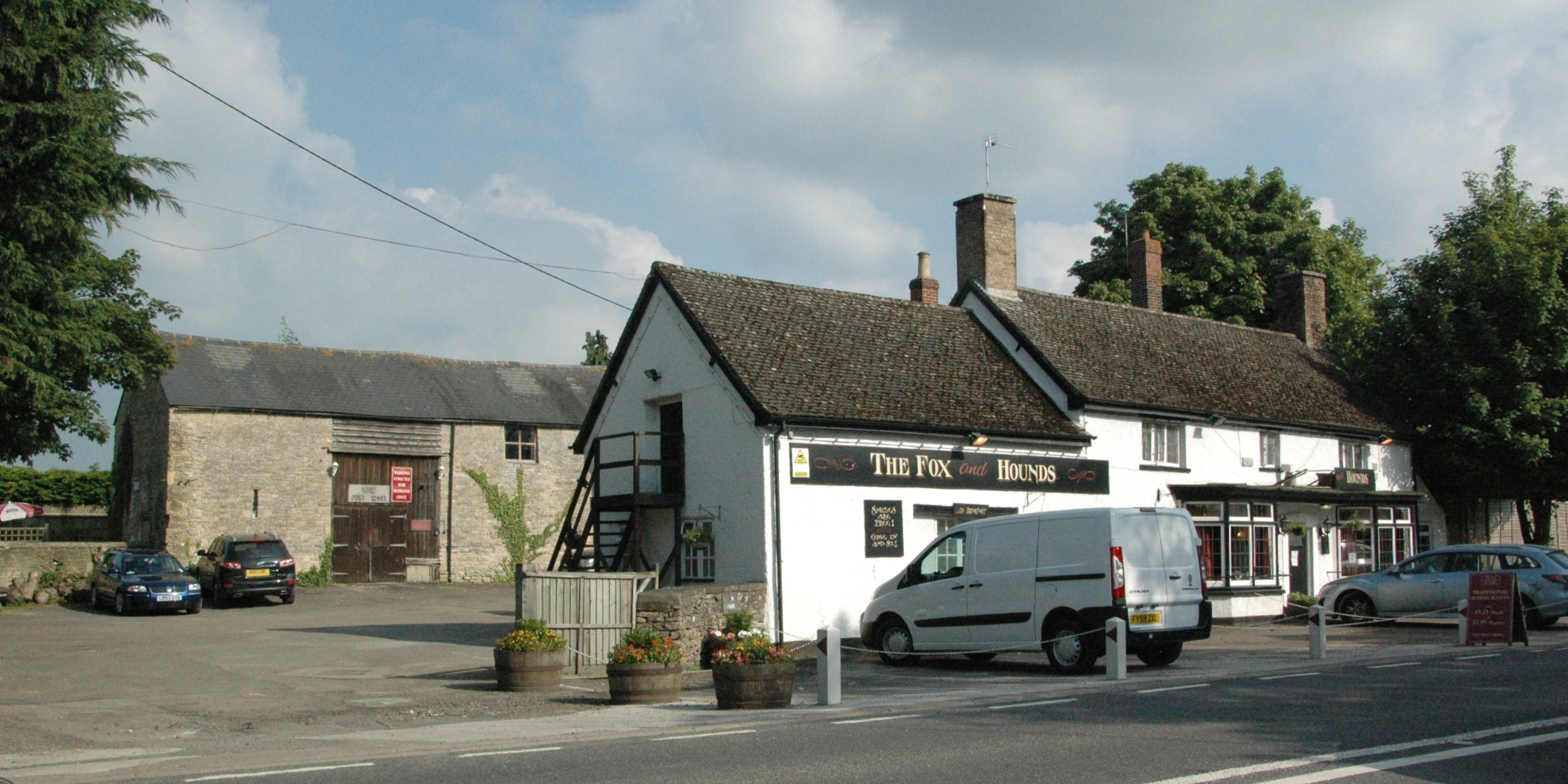 The Fox and Hounds public house, Ardley, Oxfordshire.